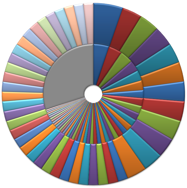 Result of the Philippine House of Representatives party-list election. Proportion of votes (inner ring) as compared to proportion of seats (outer ring) of the political parties.